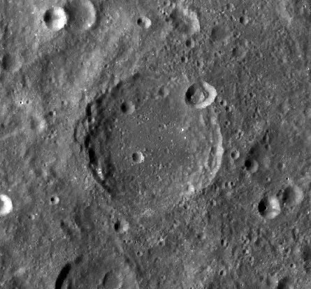 Meitner lunar crater - LRO WAC image